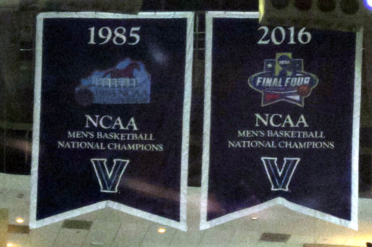 Villanova Banners at the Wells Fargo Center